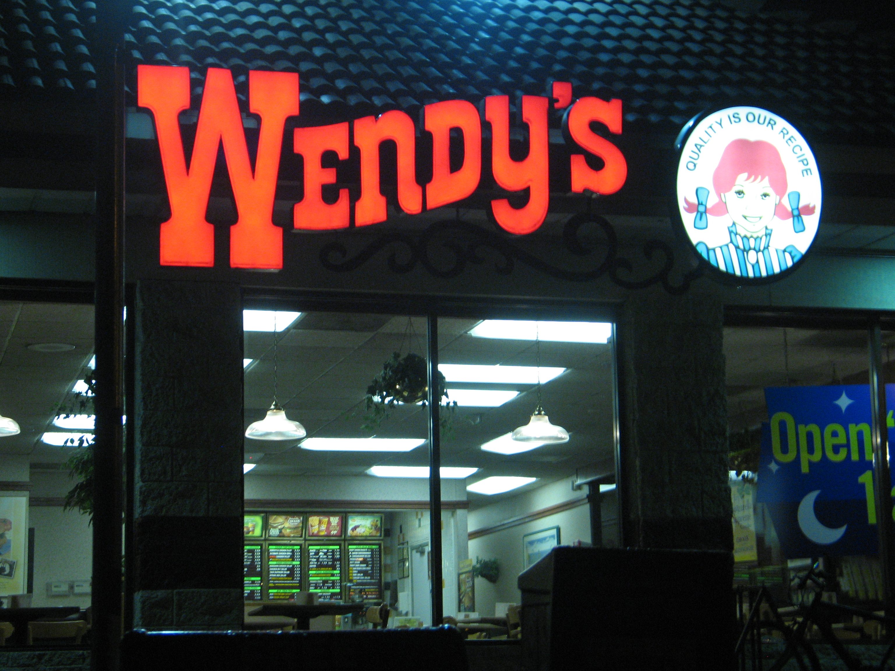 Photographed by Wikinews contributor David Vasquez using a PowerShot G6 at 1405 Monterey Highway, in San Jose, California. Initially used for the Wikinews story Wendy's sales down in Northern California.